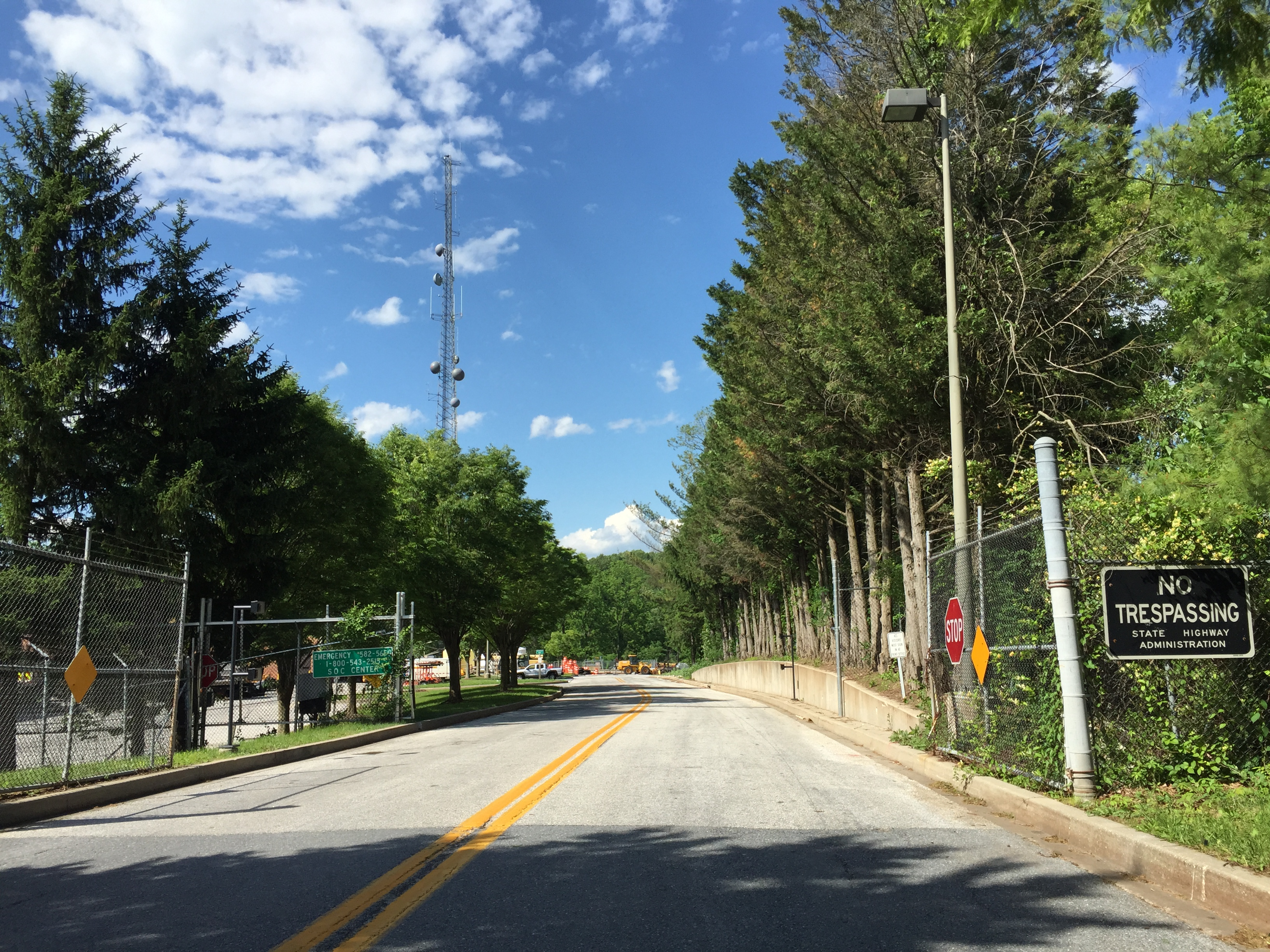 View north at the north end of Maryland State Route 889 in Hereford, Baltimore County, Maryland